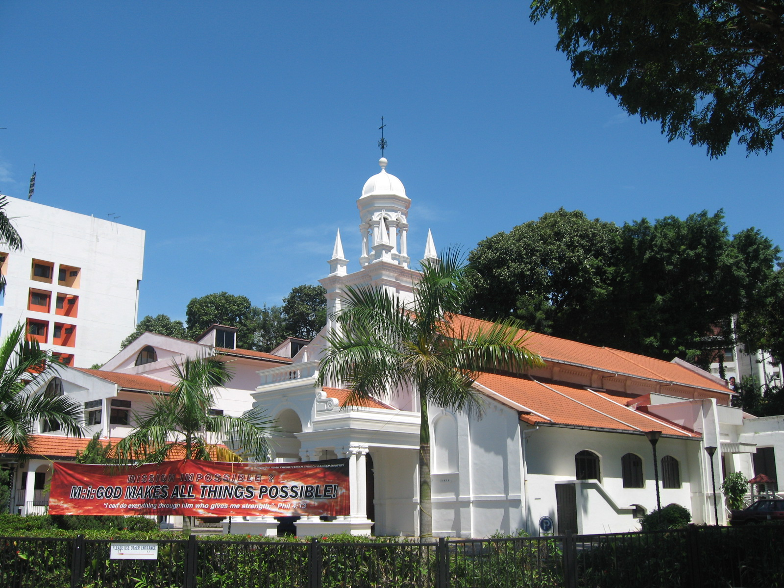 Orchard Road Presbytarian Church.